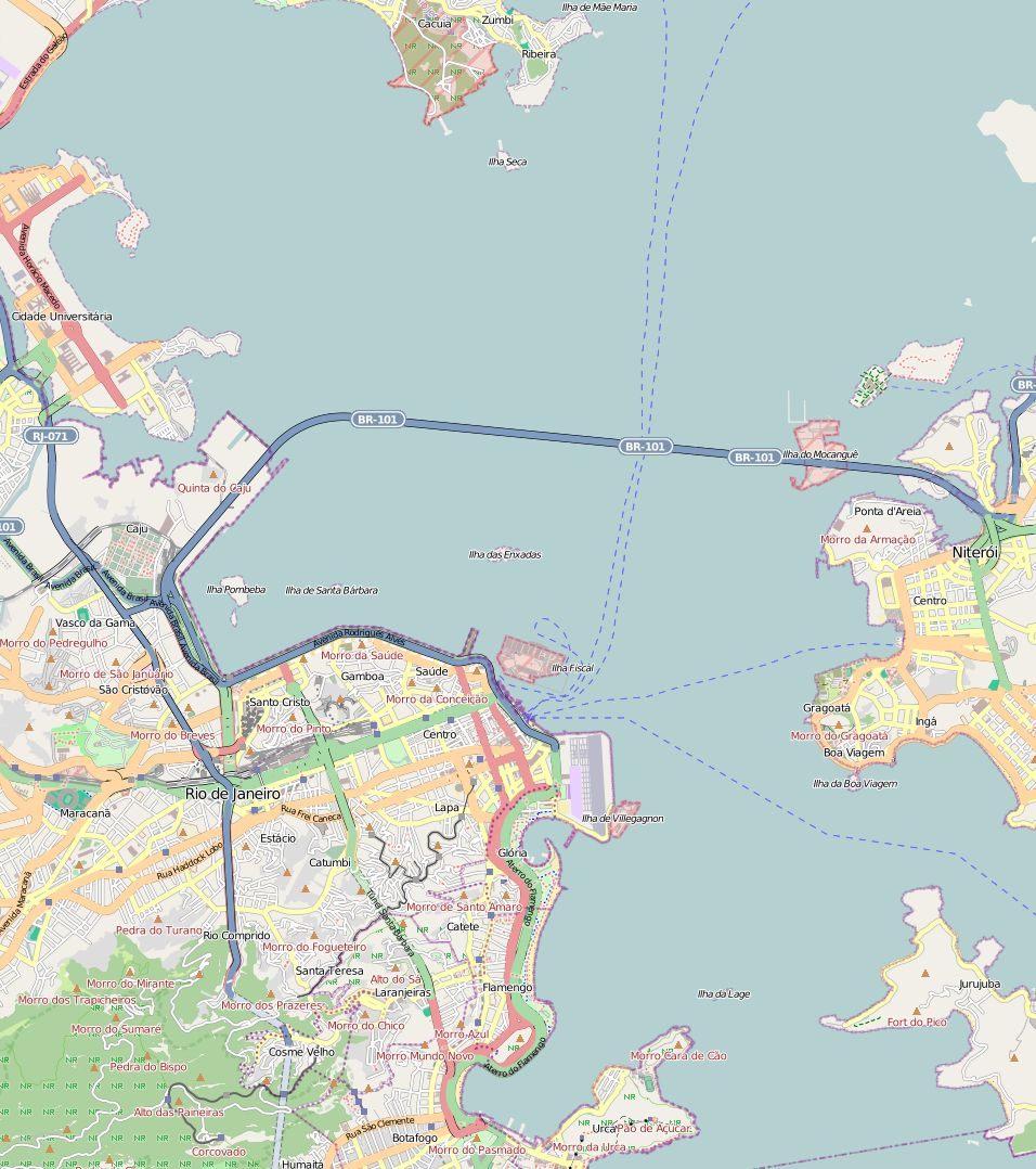 Map of the Rio-Niterói Bridge